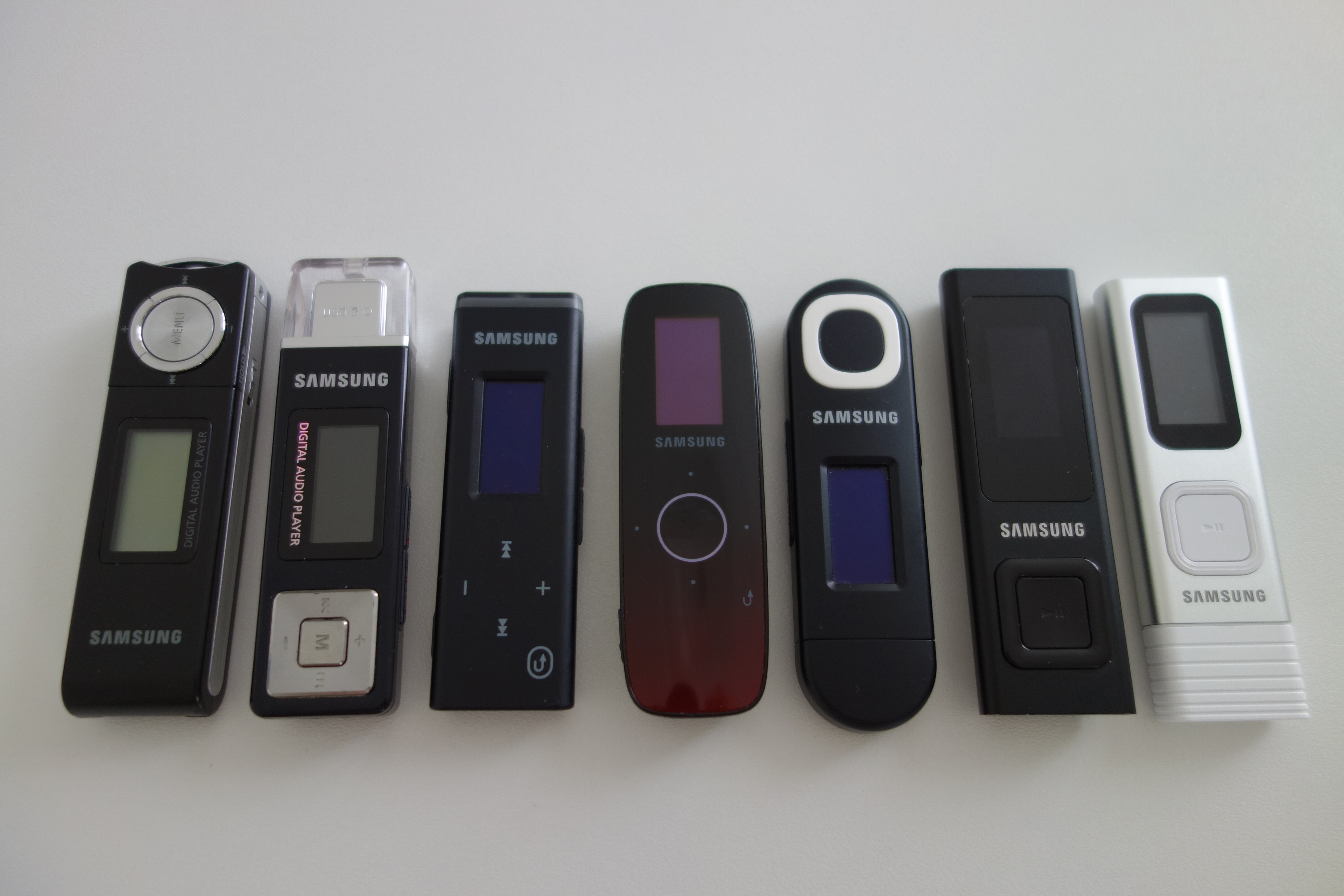 My Samsung Yepp U series collection. From left to right: YP-U1, YP-U2R, YP-U3, YP-U4, YP-U5, YP-U6, YP-U7. The USB plug is hidden.